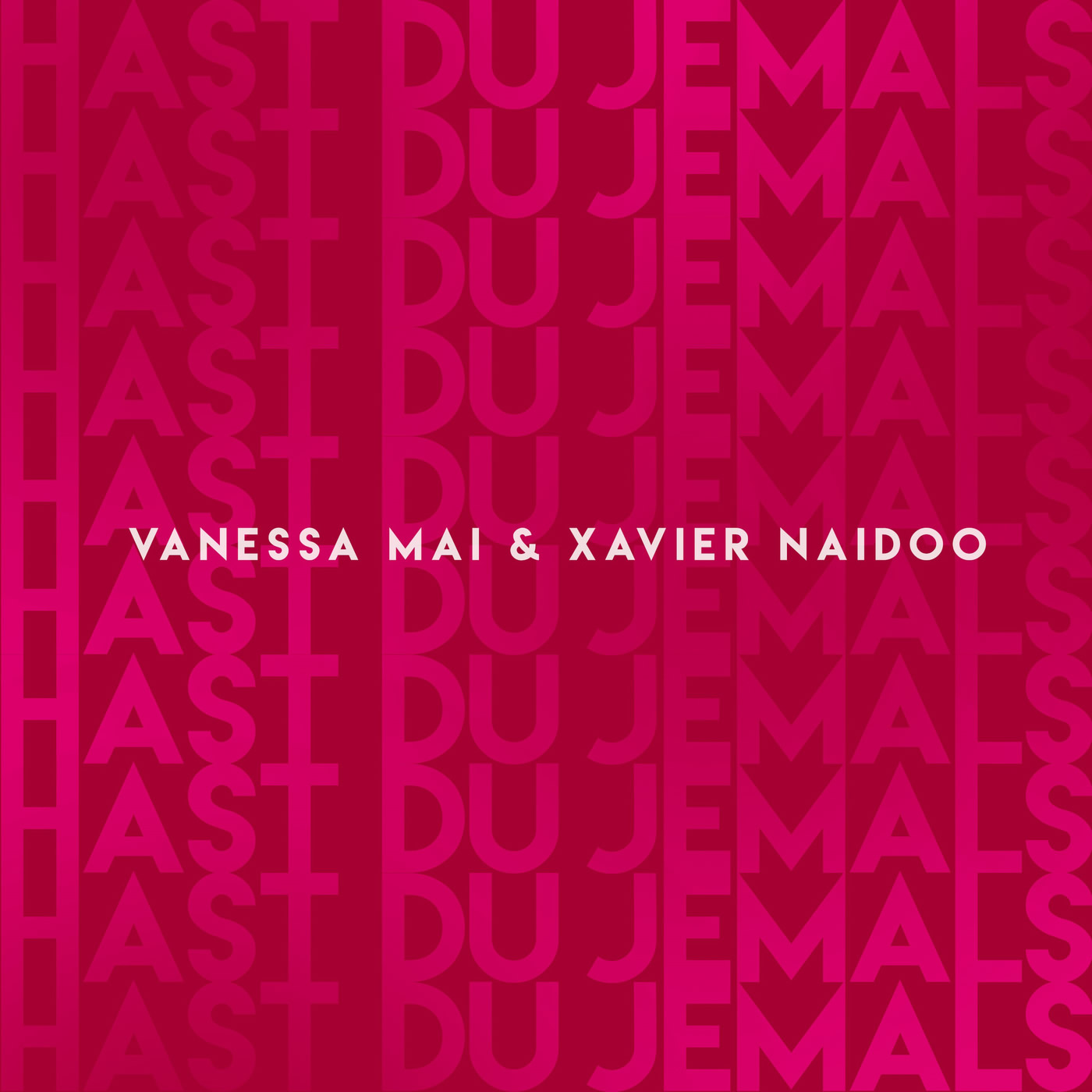 „Hast du jemals“ Single-Cover by Vanessa Mai and Xavier Naidoo.